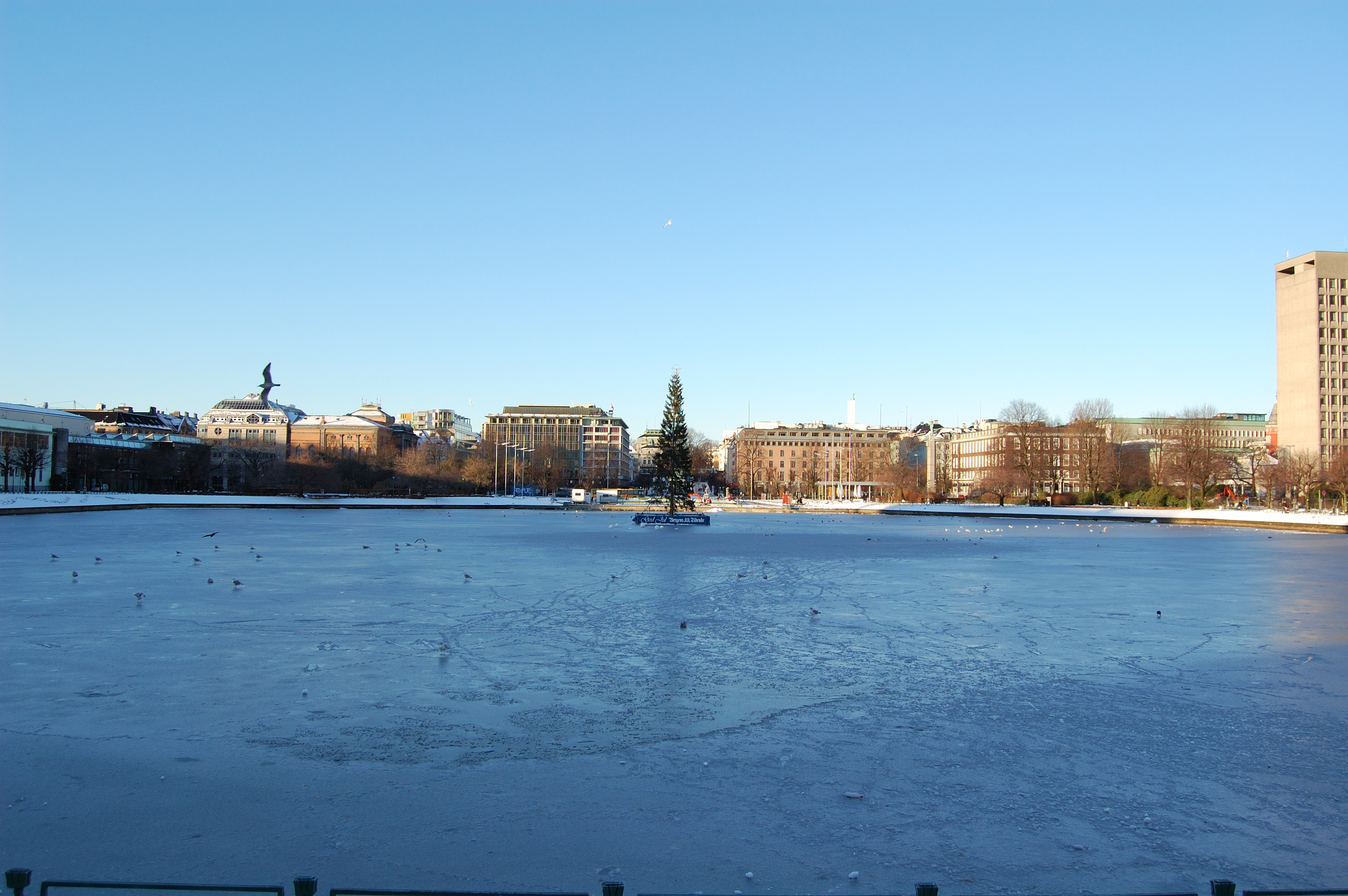 Lille Lungegårdsvannet lake in the centre of Bergen, Norway in January 2009.